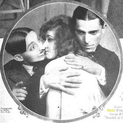 Lester Allen, Mabel Withee, and George White, from a 1919 publication about the show Scandals of 1919. Three white people in an embrace. The man on the left has a fake mustache. The woman in the center is holding her lips to his. The man on the right is taller and has his arms around the woman.